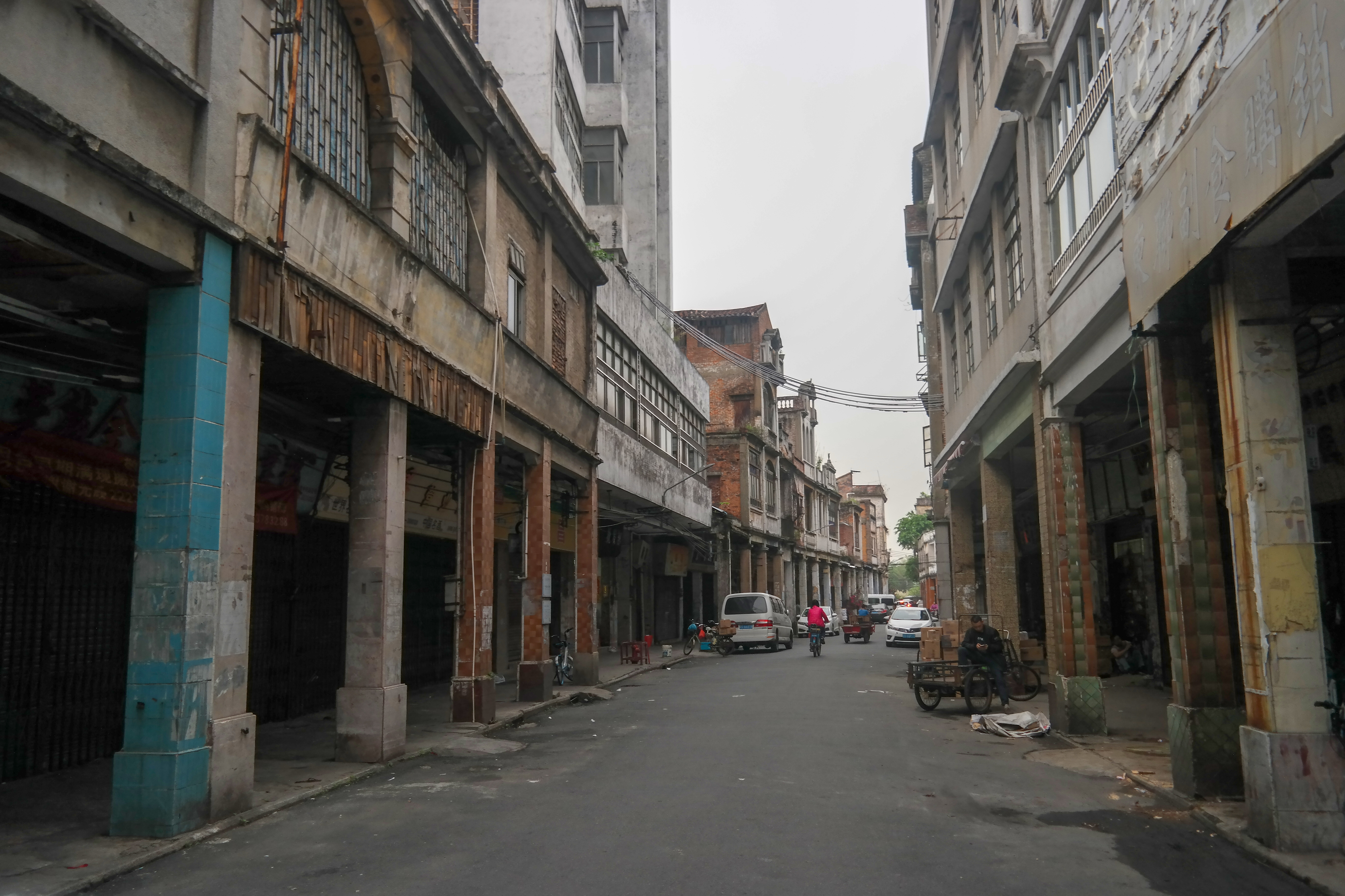 Zhongxing Road, Guancheng